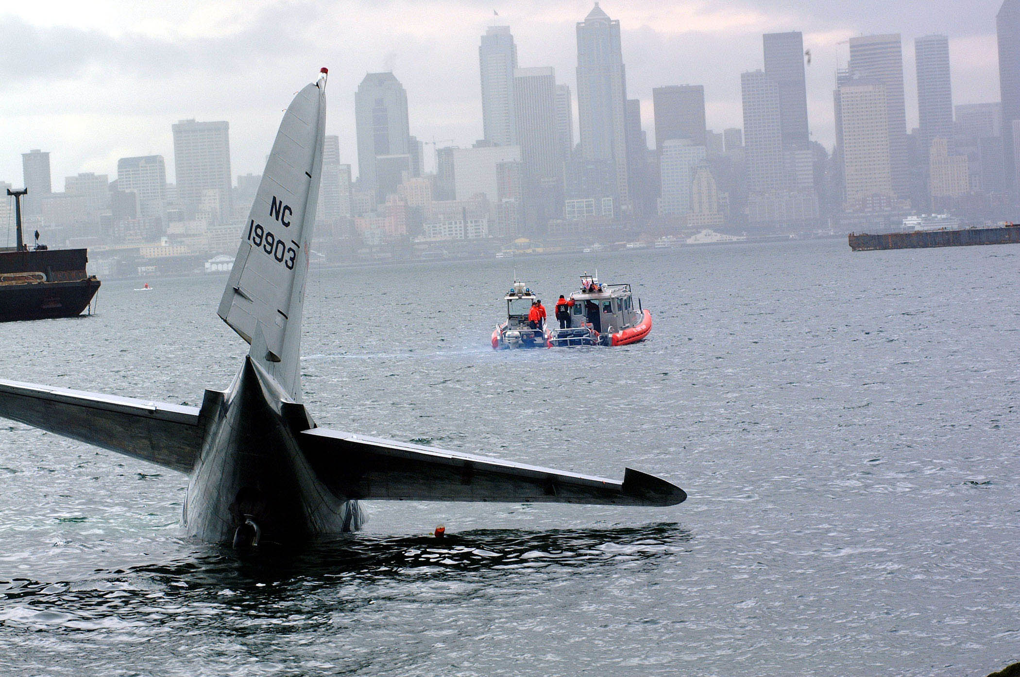 Boeing 307 NC19903 crashed into Elliott Bay near Seattle, March 28, 2002. The U.S. Coast Guard responded to rescue the victims.